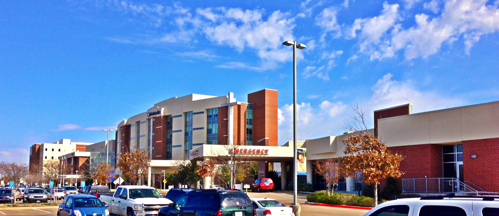 front view of Methodist Mansfield Medical Center